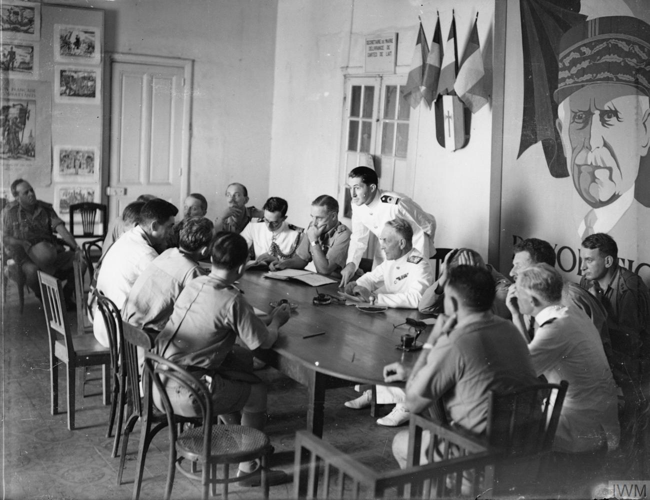 The Surrender Treaty conference at BHQ Antsirane. Left to right, seated facing the camera: Brigadier Lush; Rear Admiral Syfret; Major General Sturgess; Brigadier Festin. The French Military, Naval and Air representatives are seen in the foreground facing the British Officers. Colonel Claerbout, French Officer Commanding Defence of Diego Suarez is in centre.